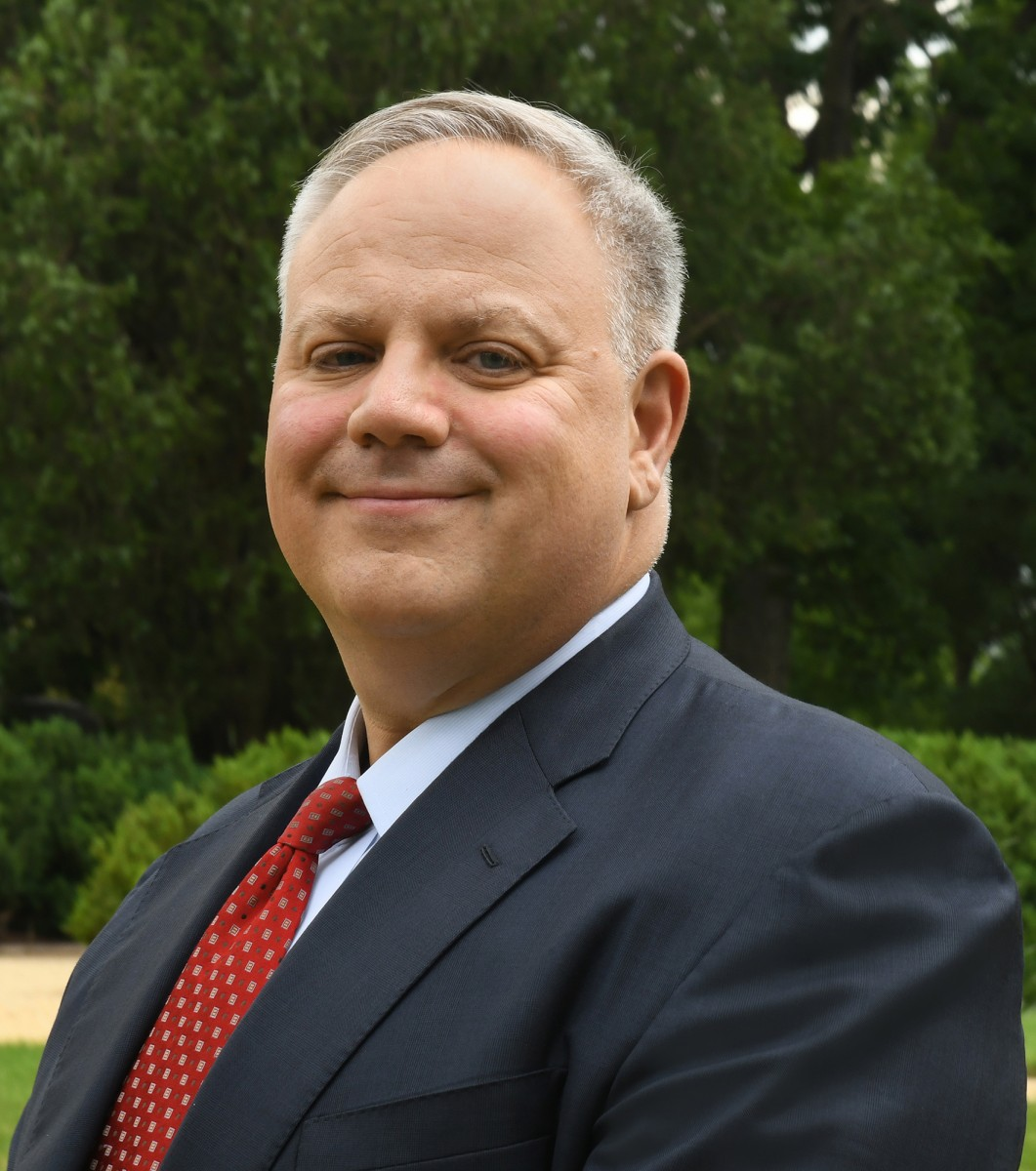 David L. Bernhardt official photo